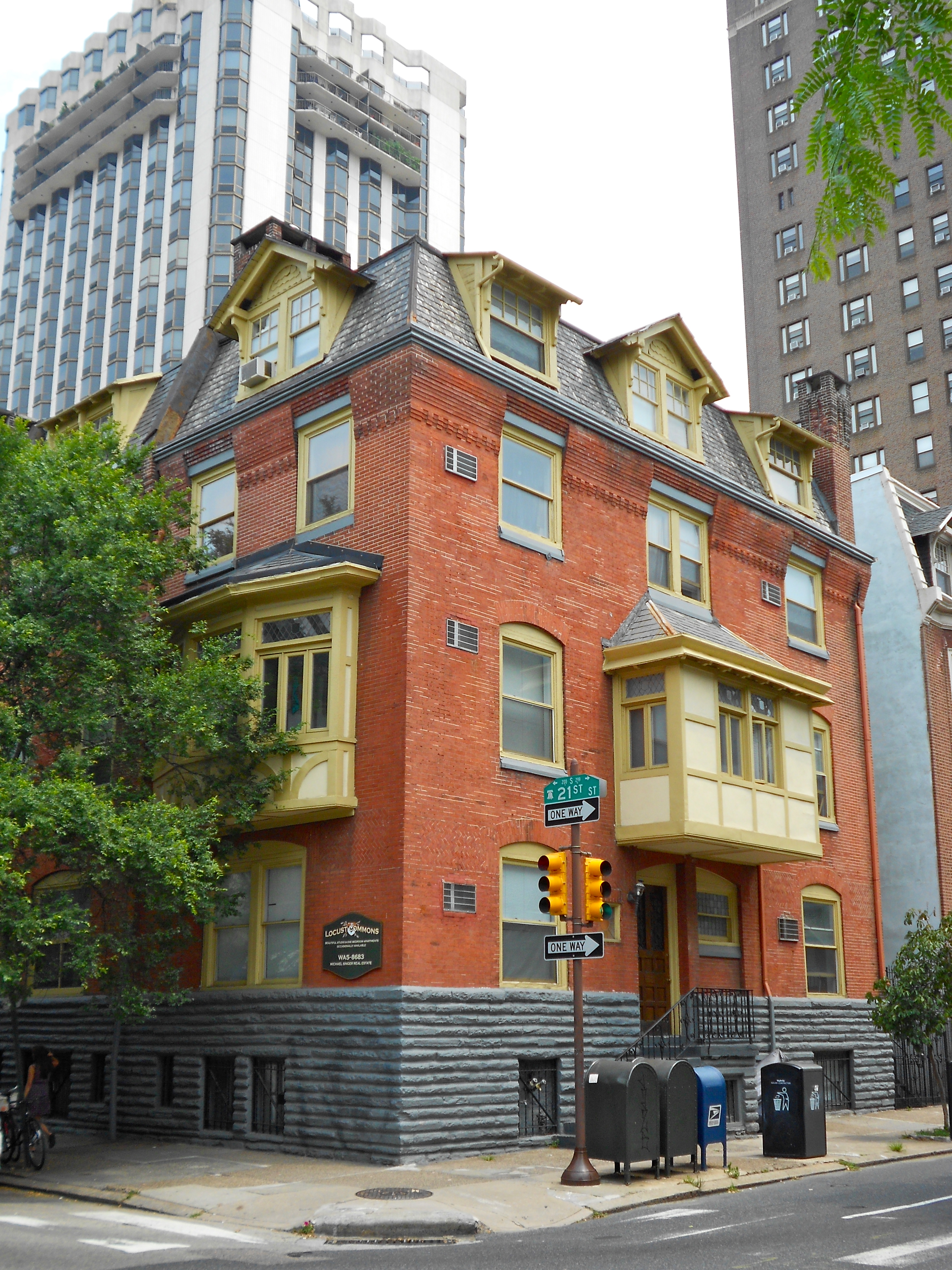 Hockley Row in Philadelphia on the NRHP. Architect Frank Furness. In the Rittenhouse Square neighborhood. NE corner of Locust and 21st.